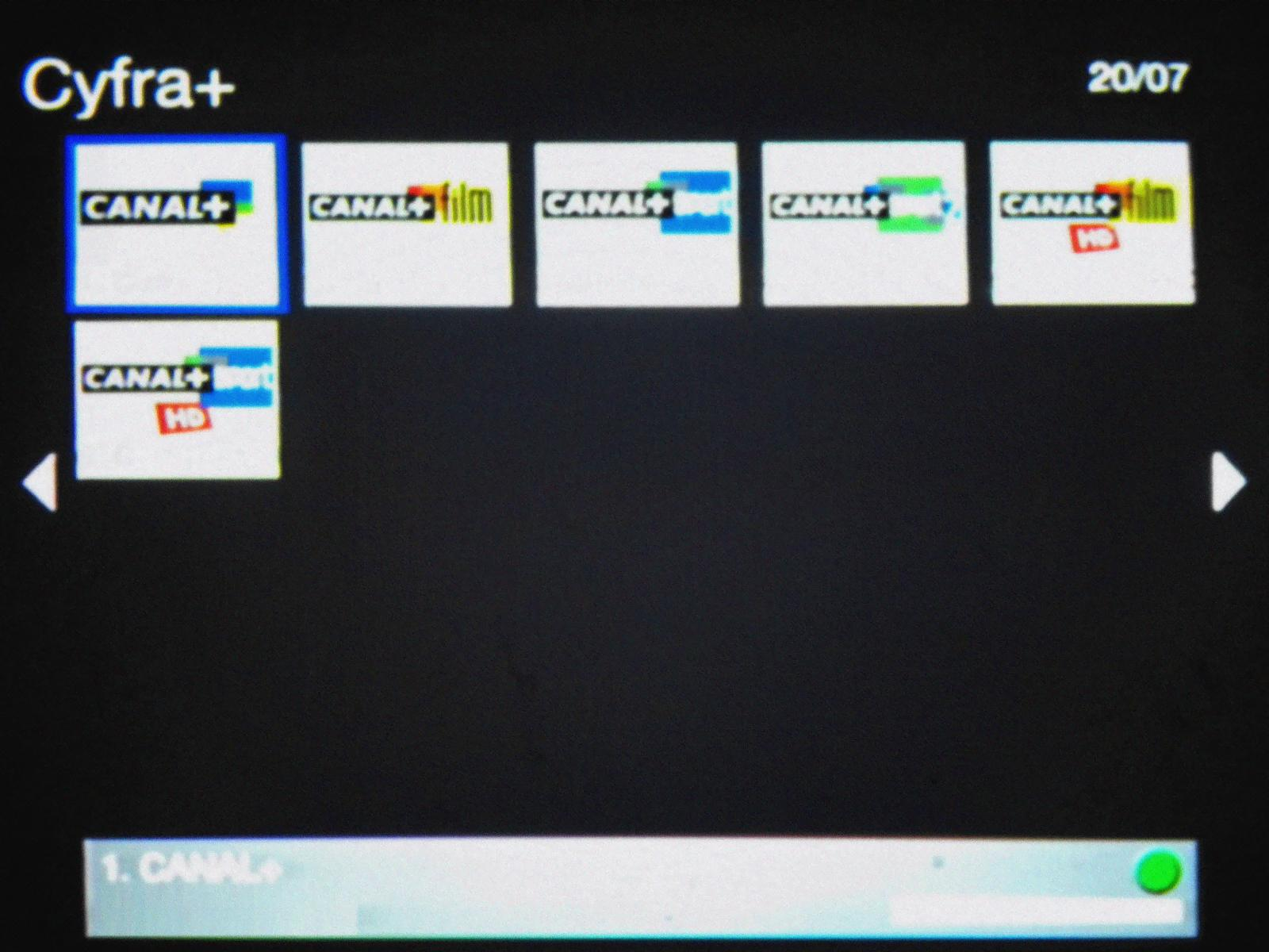 Videostrada Cyfra+ menu with Canal+ channels